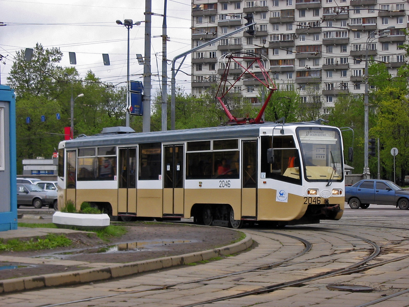 KTM-19 tram in Moscow near VDNH.